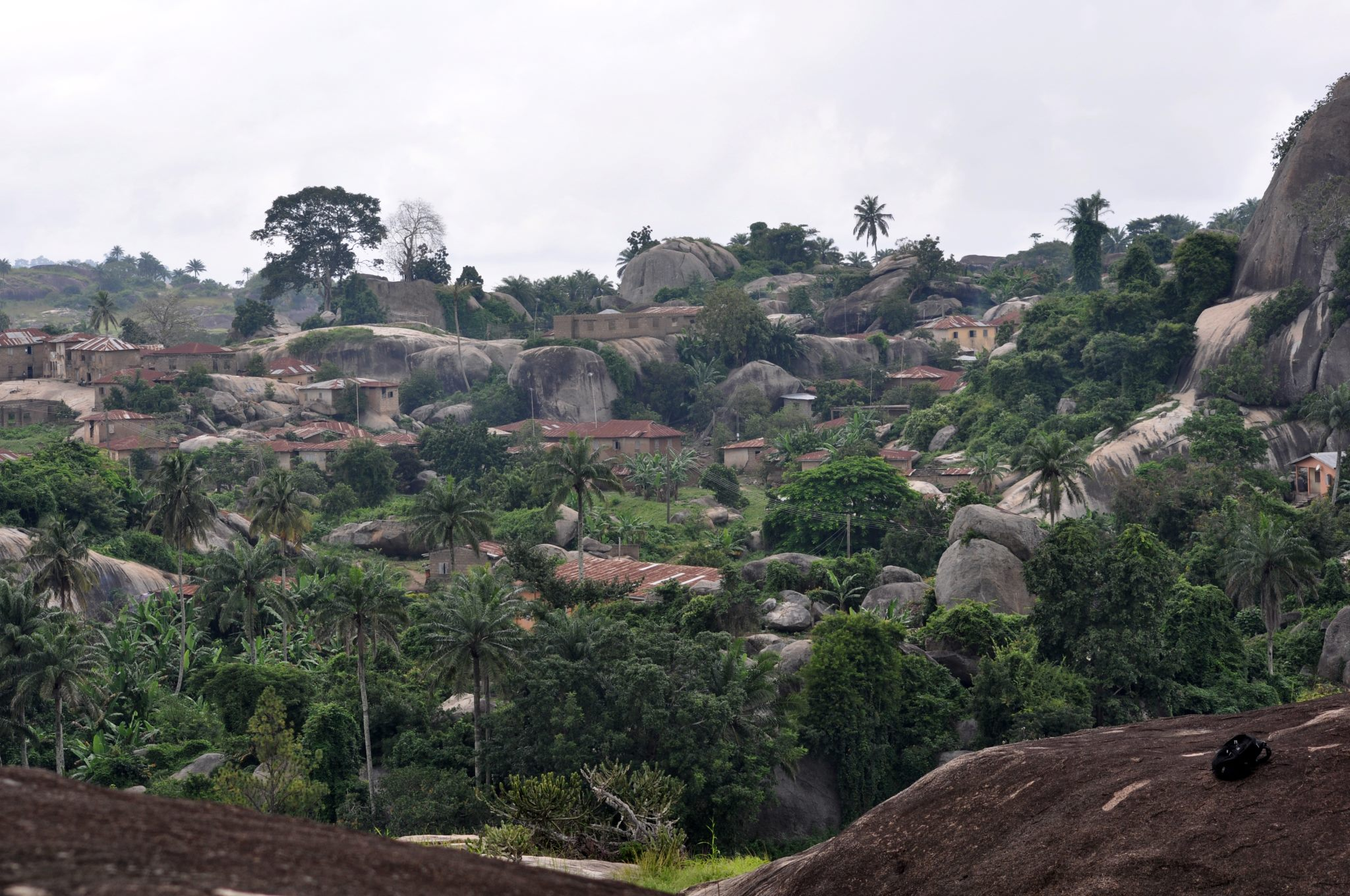 Migration of Ososo people in Edo state, Nigeria. Ososo is place everyone call home, even if u are not from there, the hospitality and the love they will show you is a way of making the go round in peace and harmoney. Proud of Ososo, the Home of tourism in Edo state, Nigeria. This is an image with the theme "Africa on the Move or Transport" from: Nigeria